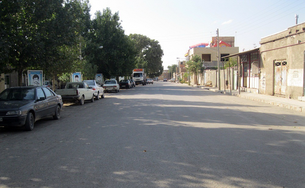 Hajjiabad, Zeberkhan, Nishapur - streets & alleys